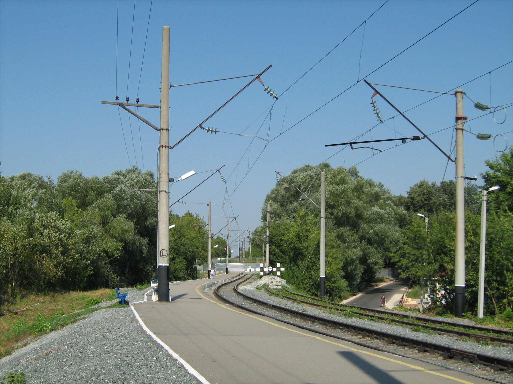 The end of the road: the Royka-Nizhny Novgorod rail line ends here, at the Gagarin Avenue platform, a few hundreds meters west of the Myza station. Until the 1970s, the trains used to run all the way to the Kazan Terminal in downtown Nizhny Novgorod, but the last several km of the rail line (along the Oka River) were abandoned due to landslides. As of summer 2007, this station serves only 4-5 trains a day in each direction.